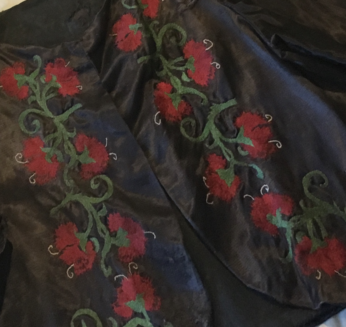 Gift from Carolos Gardel to Natalio C. Banegas. Carlos Gardel's Gaucho Jacket, embroidery detail. Courtesy Private Collection. Аҧсшәа: Obsequio de Carlos Gardel a Natalio C. Banegas. Chaqueta Gaucho de Carlos Gardel, detalle del bordado. Cortesia Colección Privada.